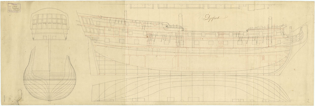 Deptford (1732) Scale: 1:48. Plan showing the body plan, stern board outline, sheer lines with inboard detail, longitudinal half-breadth with lower deck detail for Deptford (1732), a 60-gun Fourth Rate, two-decker. The plan also includes a longitudinal half-breadth for the upper deck hatches, masts and capstans. DEPTFORD 1732